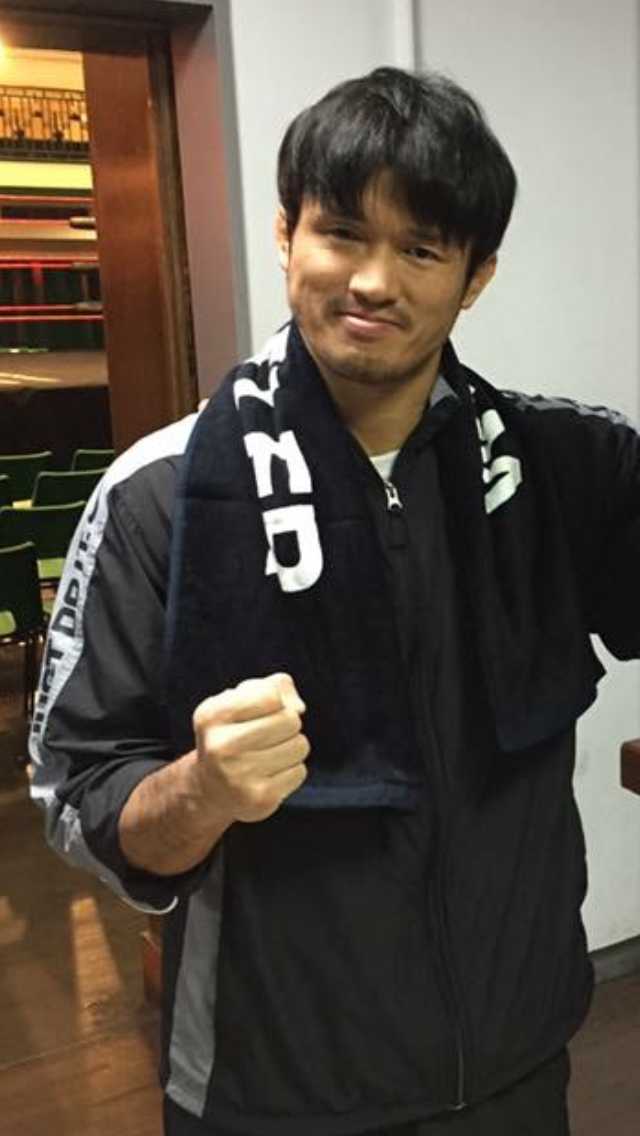 Japanese professional wrestler Katsuyori Shibata in York Hall, Bethnal Green on November 10, 2016.